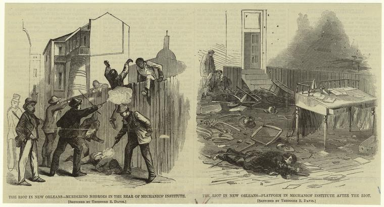 Post-Civil War violence: "The riot in New Orleans -- murdering negroes in the rear of Mechanics' Institute ; Platform in Mechanics' Institute after the riot." 1866